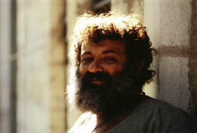 Photograph